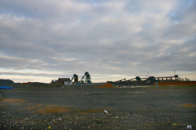 Hatfield Mine The mine opened again in 2008 and is now producing coal under Richard Budge's Powerfuel company. Now under ownership of a management buy out in 2013